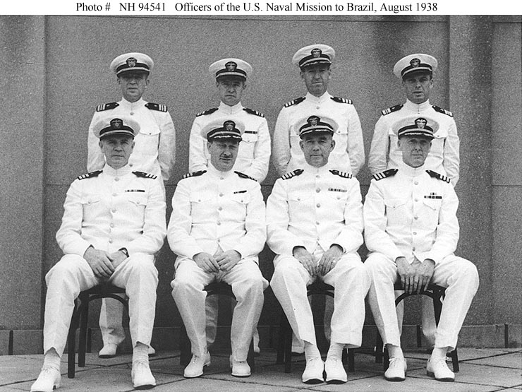 Officers of the Naval Mission staff, at Rio de Janeiro, August 1938. They are (from left to right, seated): Commander Paulus P. Powell; Commander Stewart A. Manahan; Captain Stephen B. McKinney (Chief of Mission); Commander Norman Scott. (from left to right, standing): Lieutenant Commander Charles R. Pratt; Lieutenant Commander Felix L. Johnson; Commander Edmund E. Brady, Jr.; Lieutenant Commander Edward C. Ewen. Collection of Rear Admiral Paulus P. Powell, USN U.S. Naval History and Heritage Command Photograph.